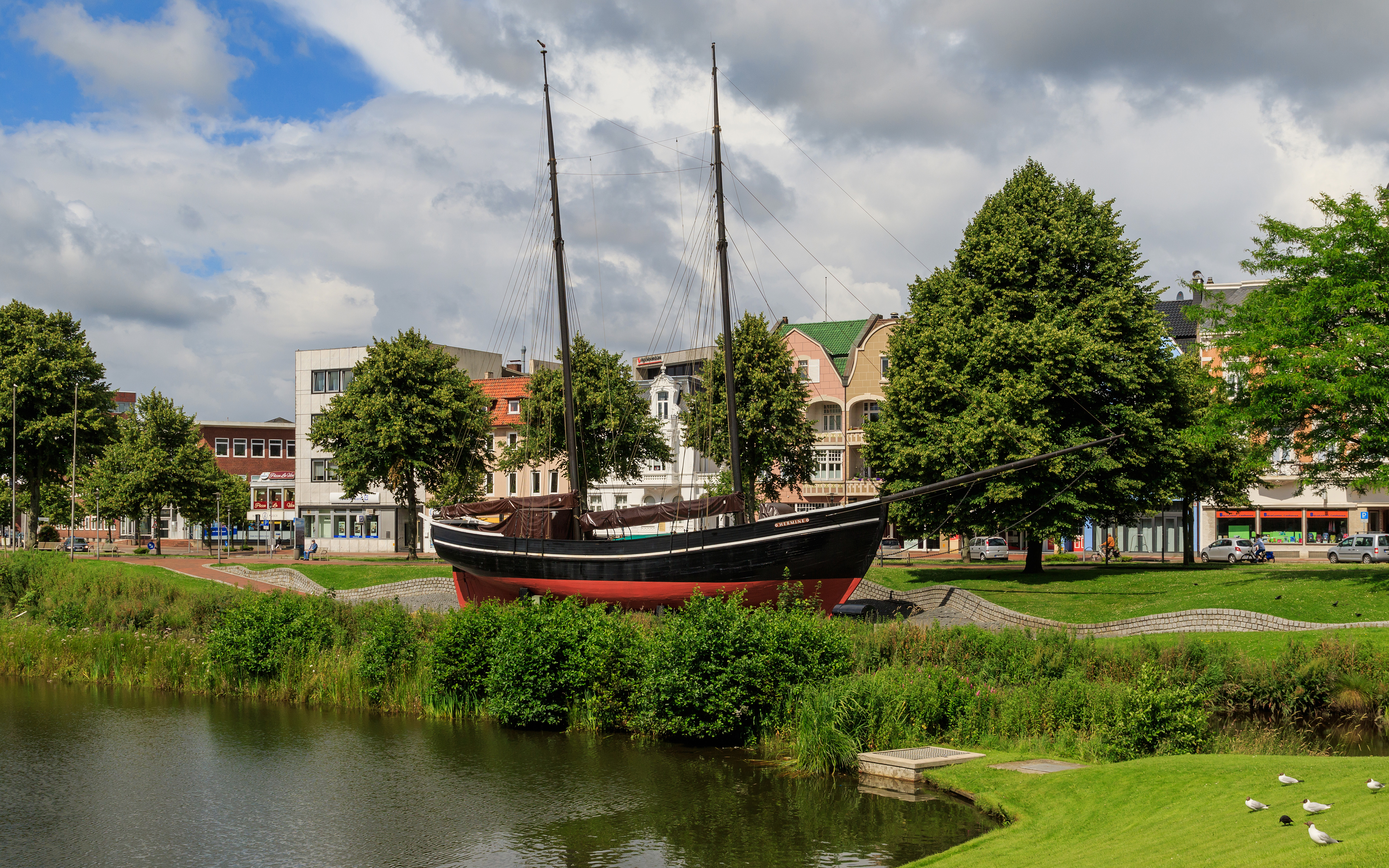 «Hermine» in Cuxhaven, Germany